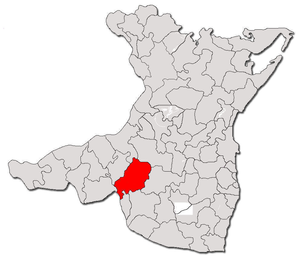 Contour map of commune Deleni